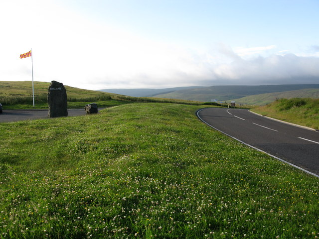 A68 crossing the border at the Carter Bar Looking south into England from the Scottish side of the border.